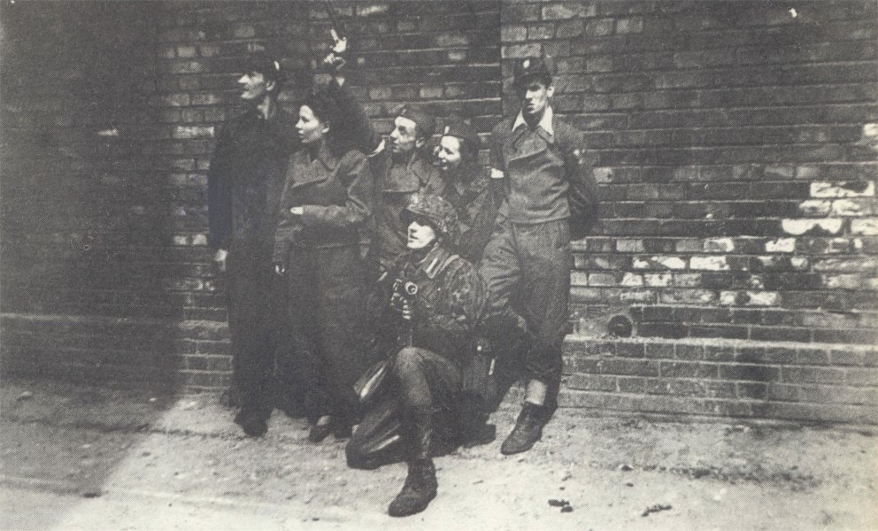 Stoją od lewej , Marian Ławacz ps. "Marek", Krystyna Trzaska ps. "Krysia", Zenon Jackowski ps. "Adaś", Danuta Aniszewska ps. "Danka", Zbigniew Wojterkowski ps. "Sowa", klęczy Jan Romańczyk ps. "Łata"